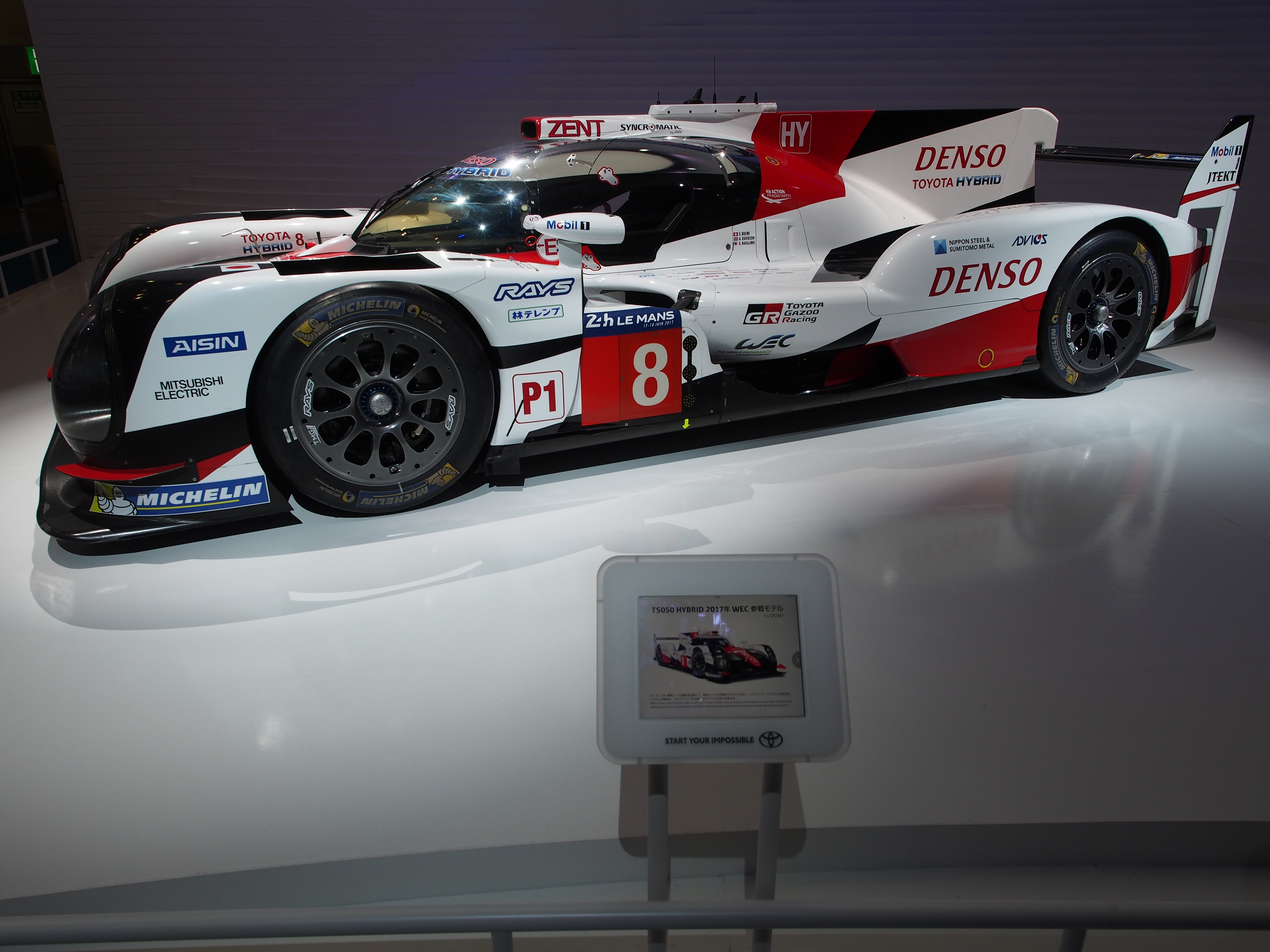 Replica of Toyota TS050 Hybrid 2017 WEC exhibited at the Tokyo Motor Show 2017.